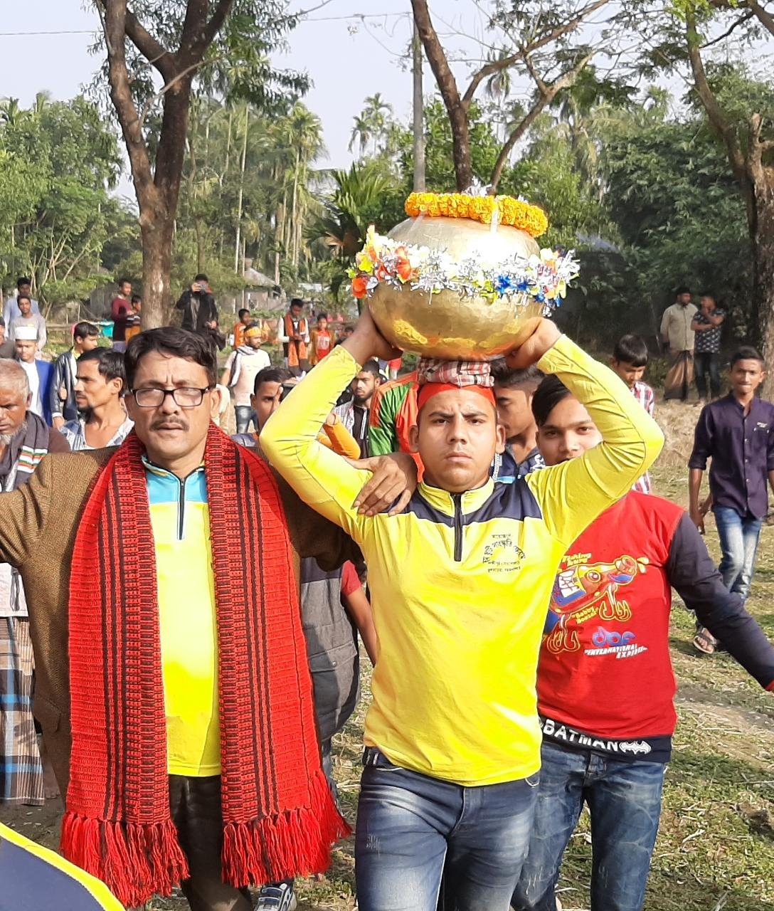 Humguti's Guti bring on the the field for playing 250 years old traditional sports.